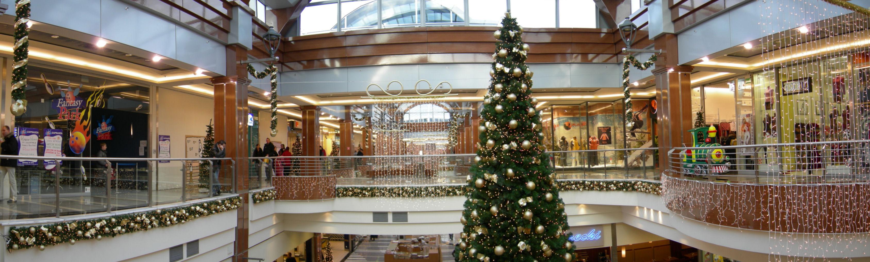 Plaza shop center, Poznań, Poland